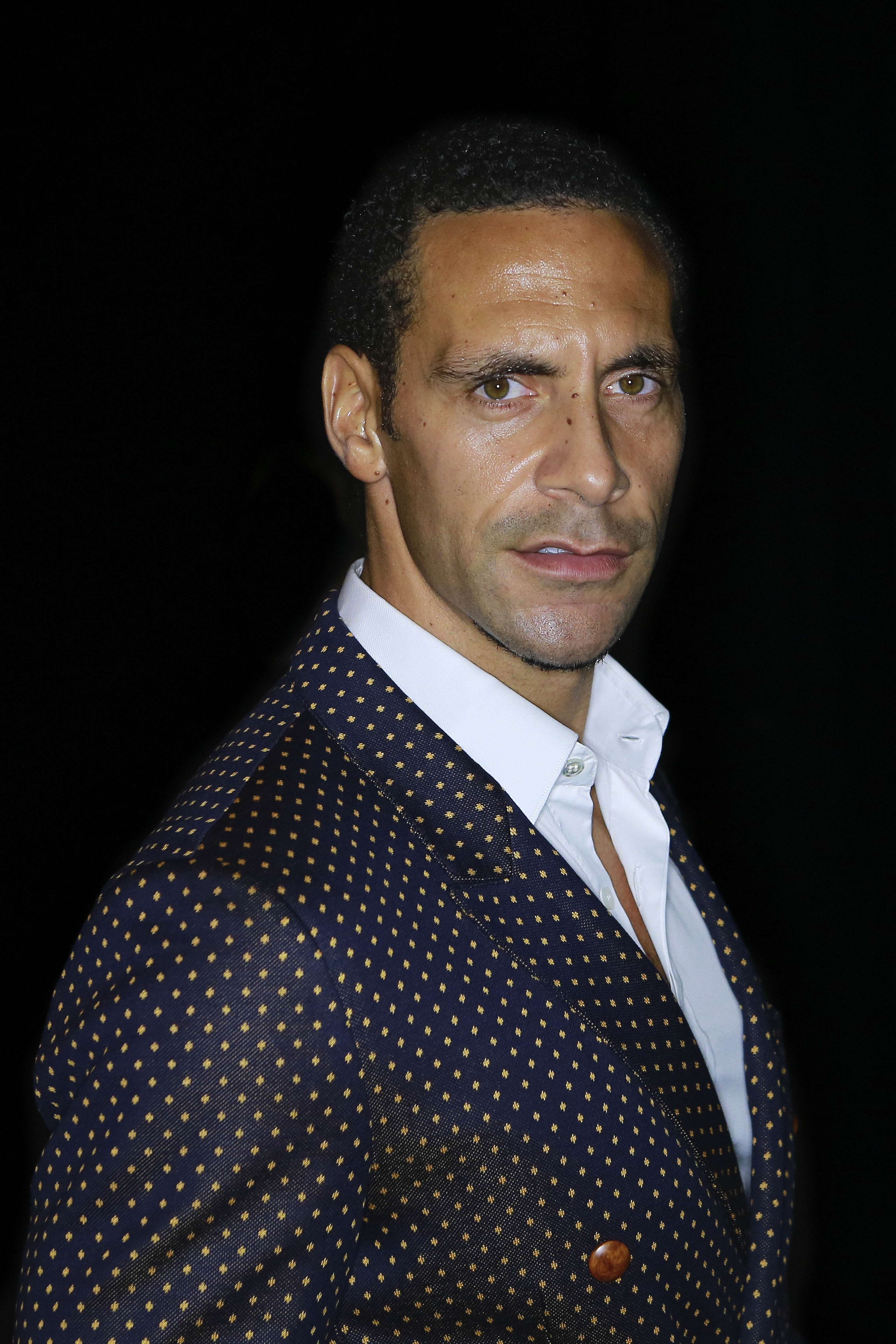 Rio Ferdinand Portrait by Walterlan Papetti